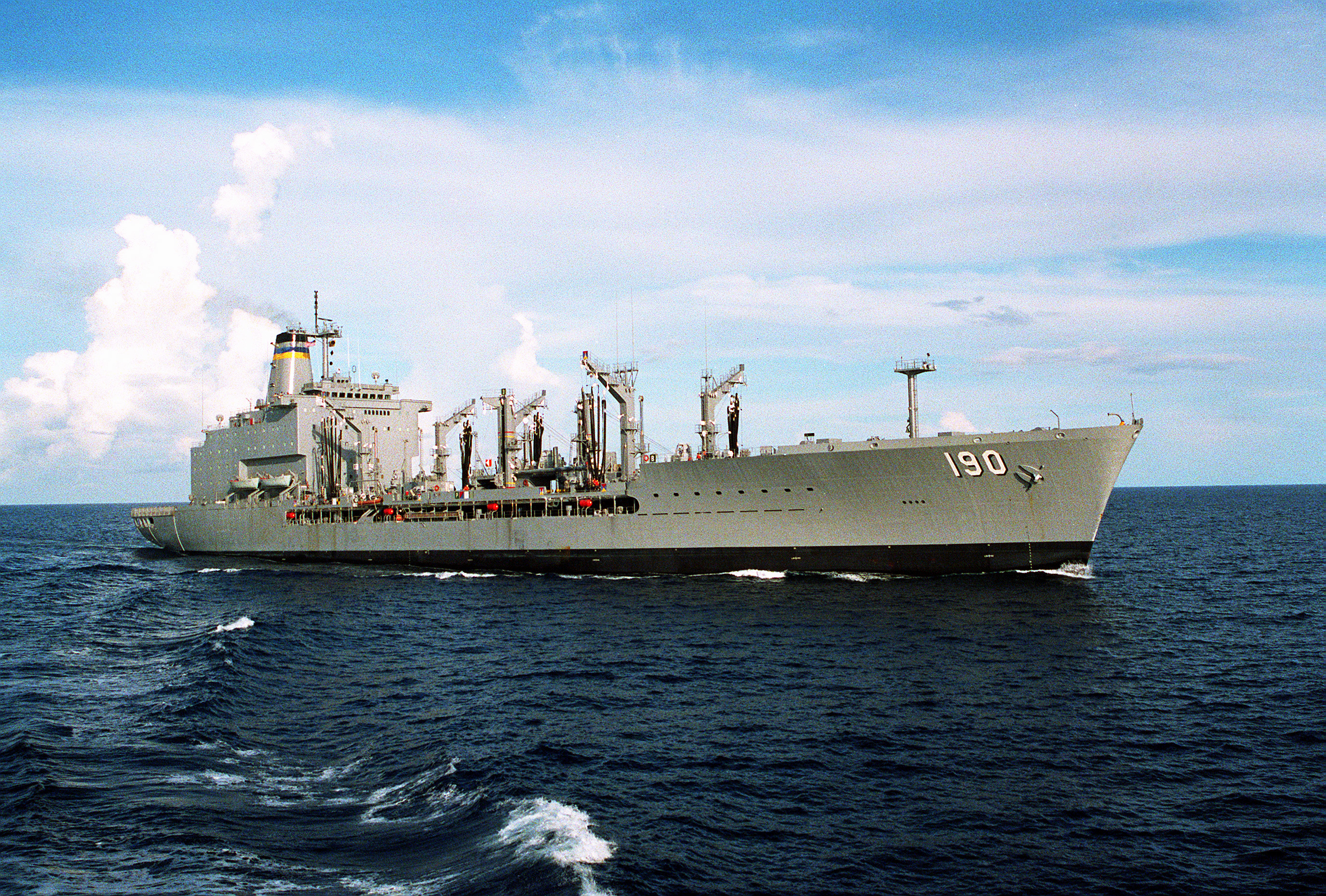 The U.S. Military Sealift Command fleet oiler USNS Andrew J. Higgins (T-AO-190) underway in the Gulf of Oman on 1 August 1990, en route to the Persian Gulf during operation "Desert Shield".